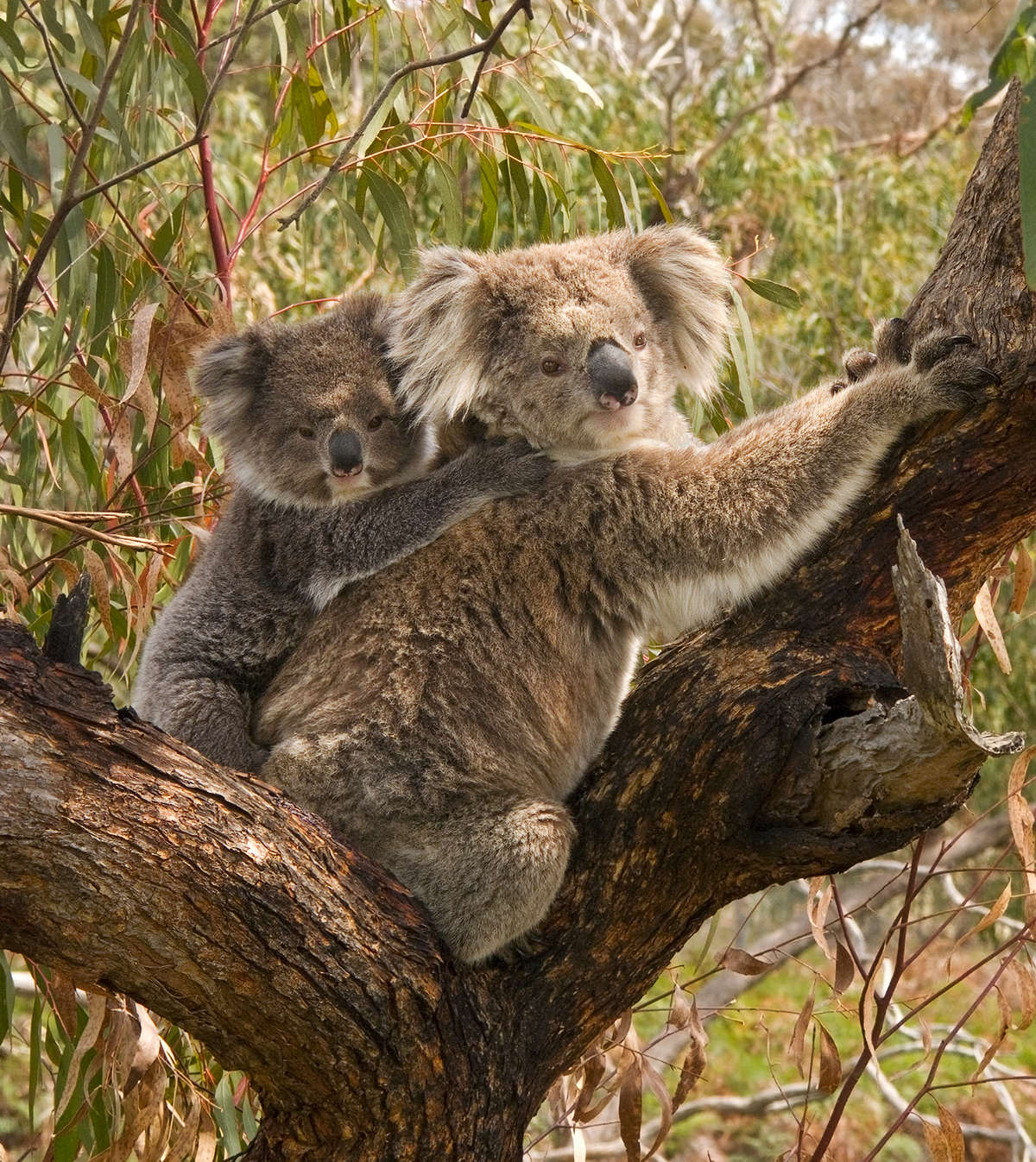 Koala and baby on back.